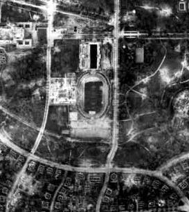 Ilgen-Kampfbahn and Georg-Arnhold-Bad in the center of Dresden, after bombing 1945